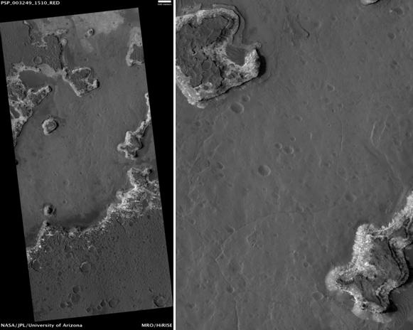 Ritchey Crater Floor, as seen by hirise. Location is 28.5 South and 309.4 East. Scale bar is 500 meters long. Image was taken by the Mars Reconnaissance Orbiter's HiRISE. The HiRISE camera was built by Ball Aerospace and Technology Corporation and is operated by the University of Arizona. Image courtesy NASA/JPL/University of Arizona.